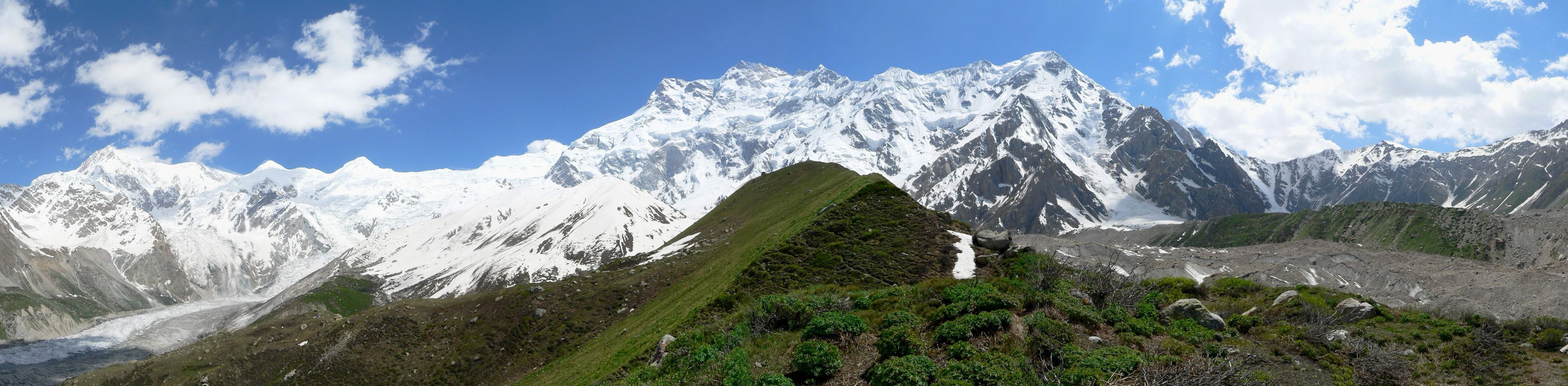 This panorama was taken on the way to the base camp of Nanga Parbat, also known as the "killer mountain". At 8,125 metres (26,658 feet), it is the 9th highest peak of the world and the 2nd highest peak in Pakistan. The base camp is about a kilometer's trek from here. One glacier is visible on the right side, another glacier can be seen building on the left side.